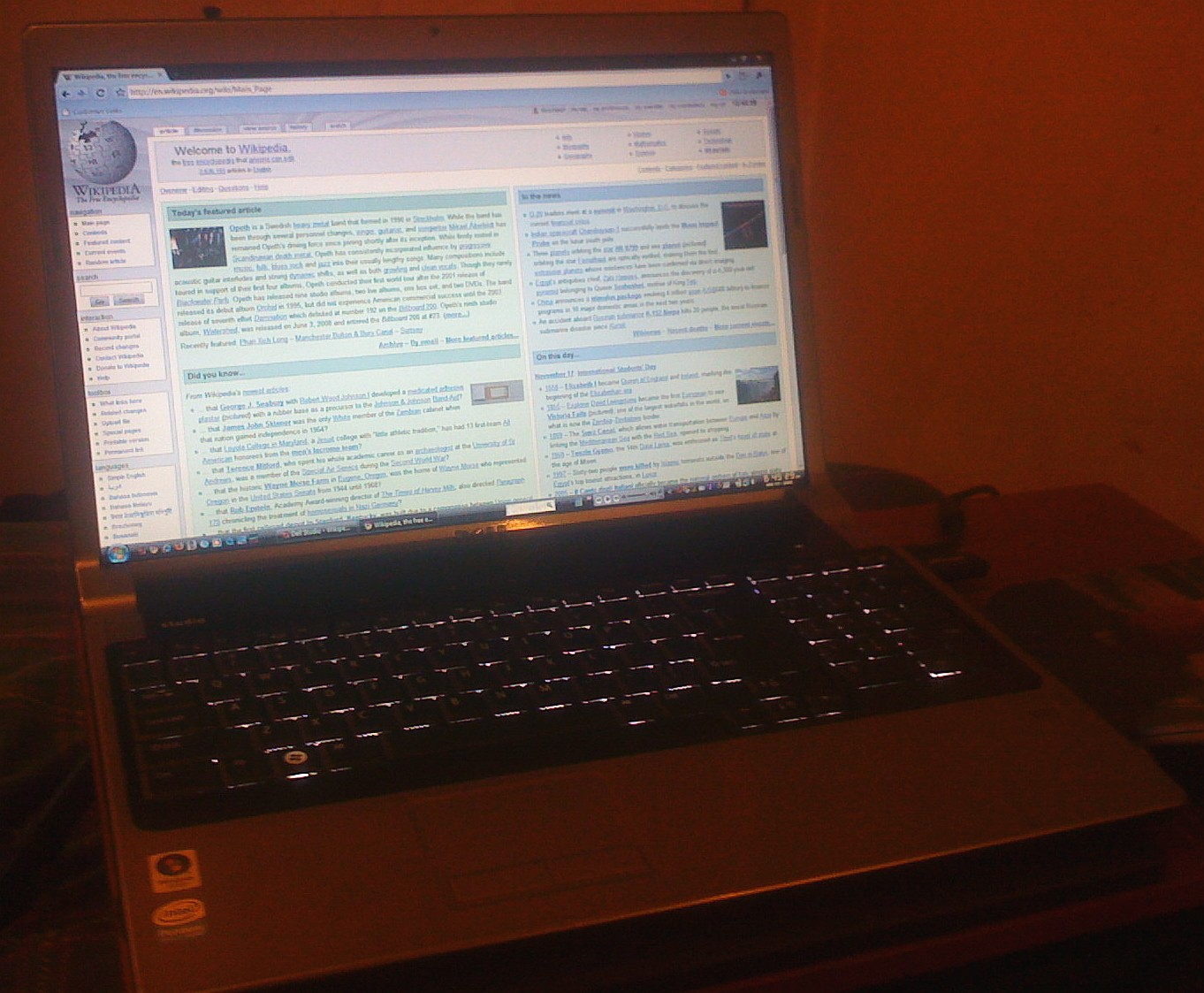 The editor's personal Dell Studio 17 laptop, featuring Wikipedia's front page in Google Chrome